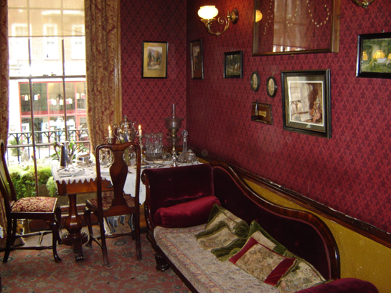 Photo of second floor sitting room set up at the Sherlock Holmes Museum in London England